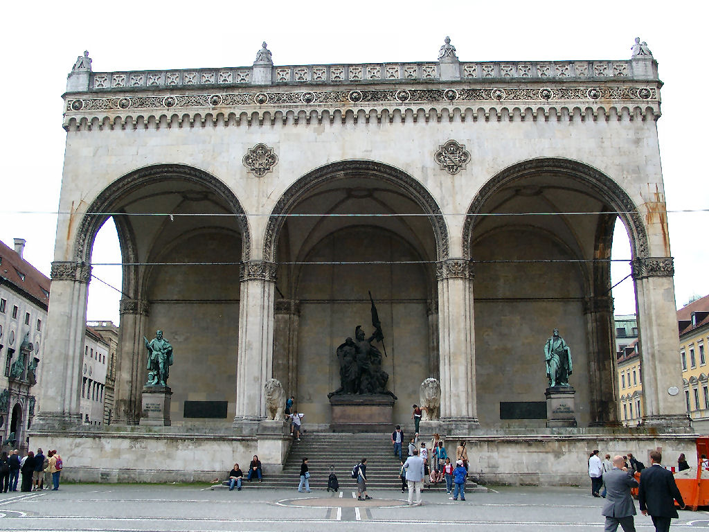 The Feldherrnhalle in Munich, Bavaria.